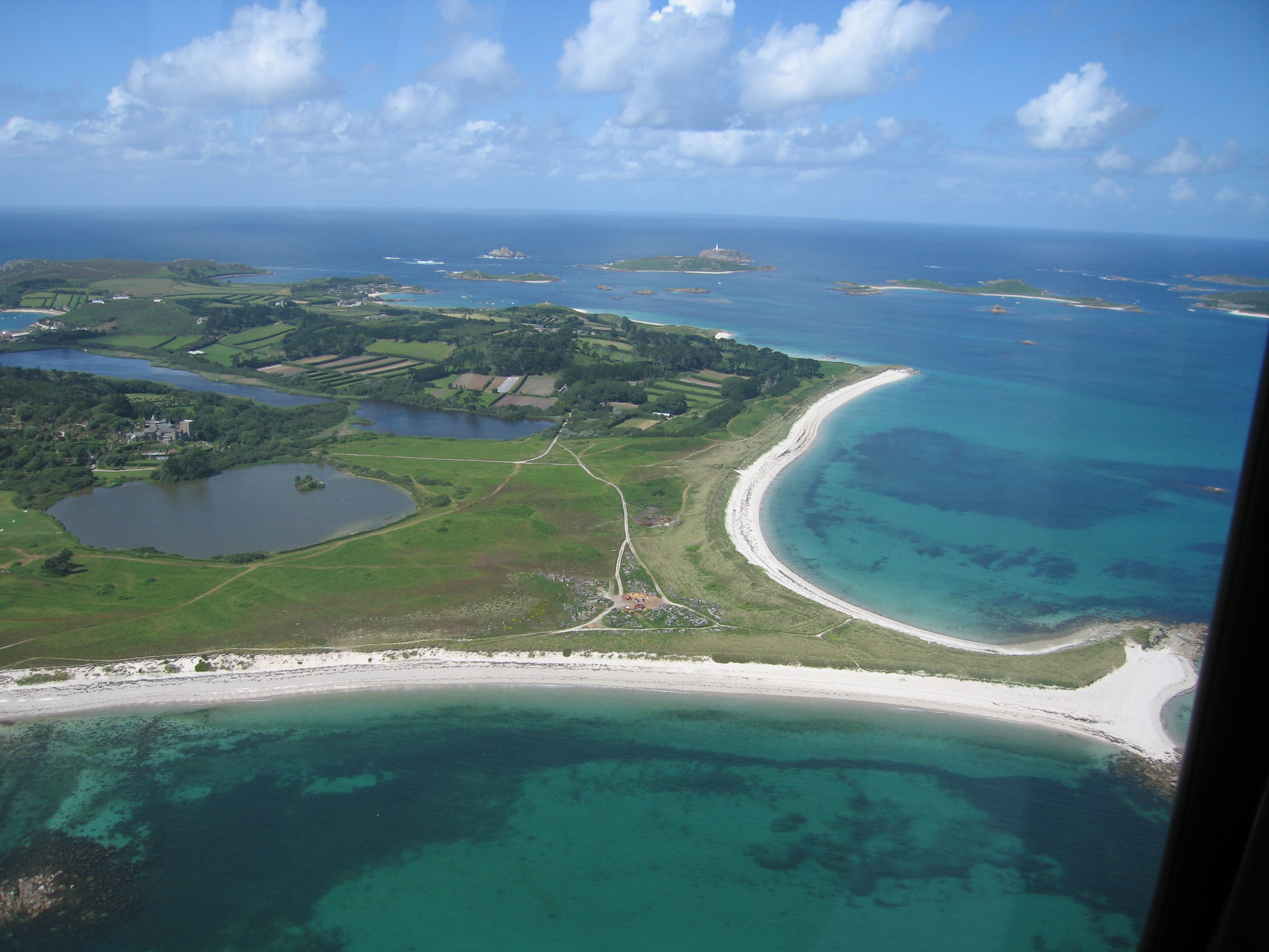 Photo taken from the helicopter leaving Tresco.